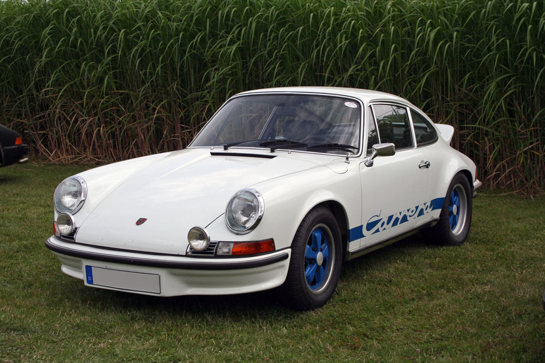 Porsche 911 Carrera RS at Classic Days Schloss Dyck 2012. View: front left